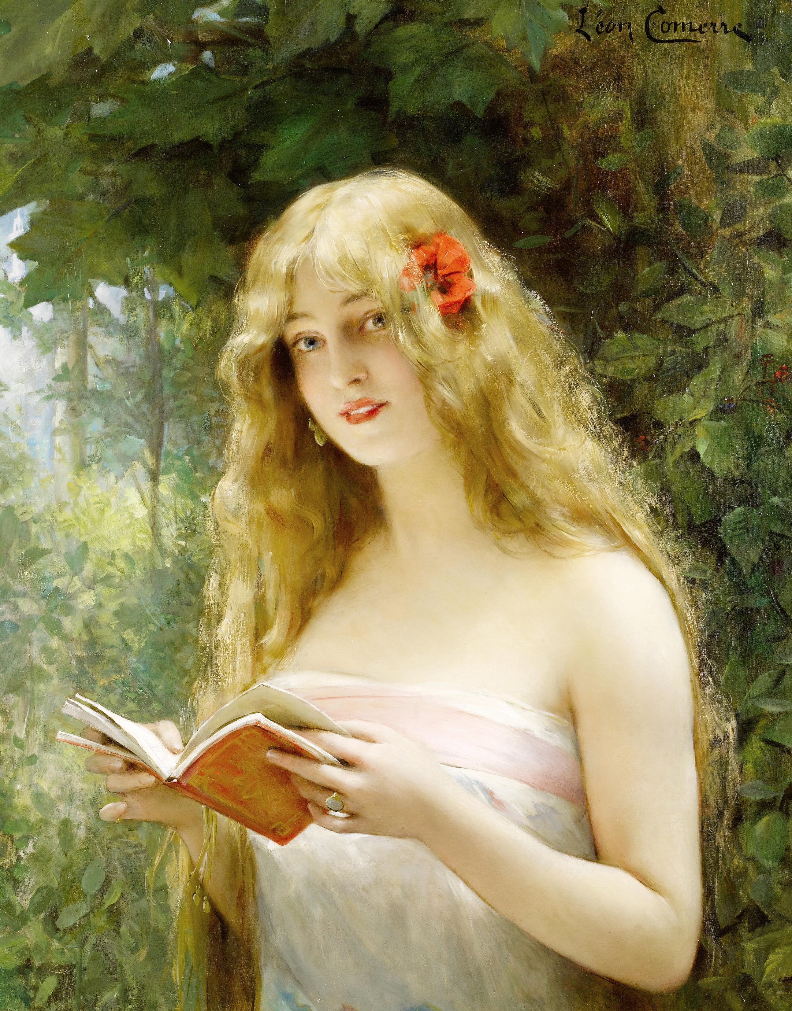 La Belle Liseuse (The Beautiful Reader). Signed Léon Comerre. Oil on canvasm, 82 x 66 cm